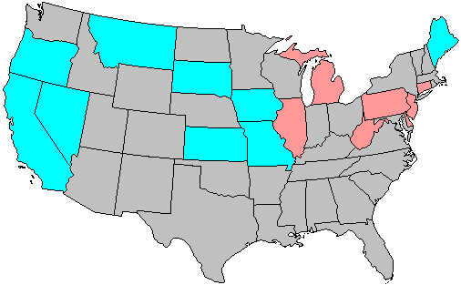 Summary of party change of U.S. house seats in the 1956 House election. Stripes indicate a tie between the gains of two or more parties. Legend: 6+ Democratic seat pickup 3-5 Democratic seat pickup 1-2 Democratic seat pickup 1-2 Republican seat pickup 3-5 Republican seat pickup 6+ Republican seat pickup Note: years ending in 2 may have inconsistent results due to redistricting.